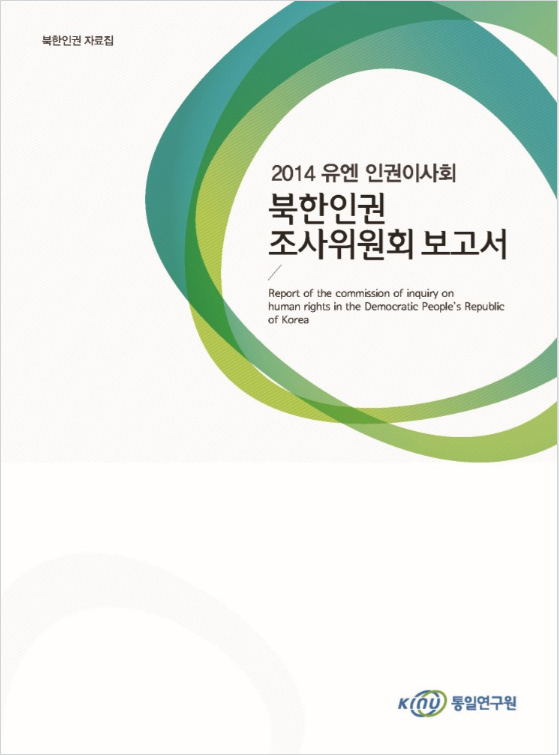 Cover the the Korean translation of the Report of the Commission of Inquiry on Human Rights in the DPR Korea, published in 2014.